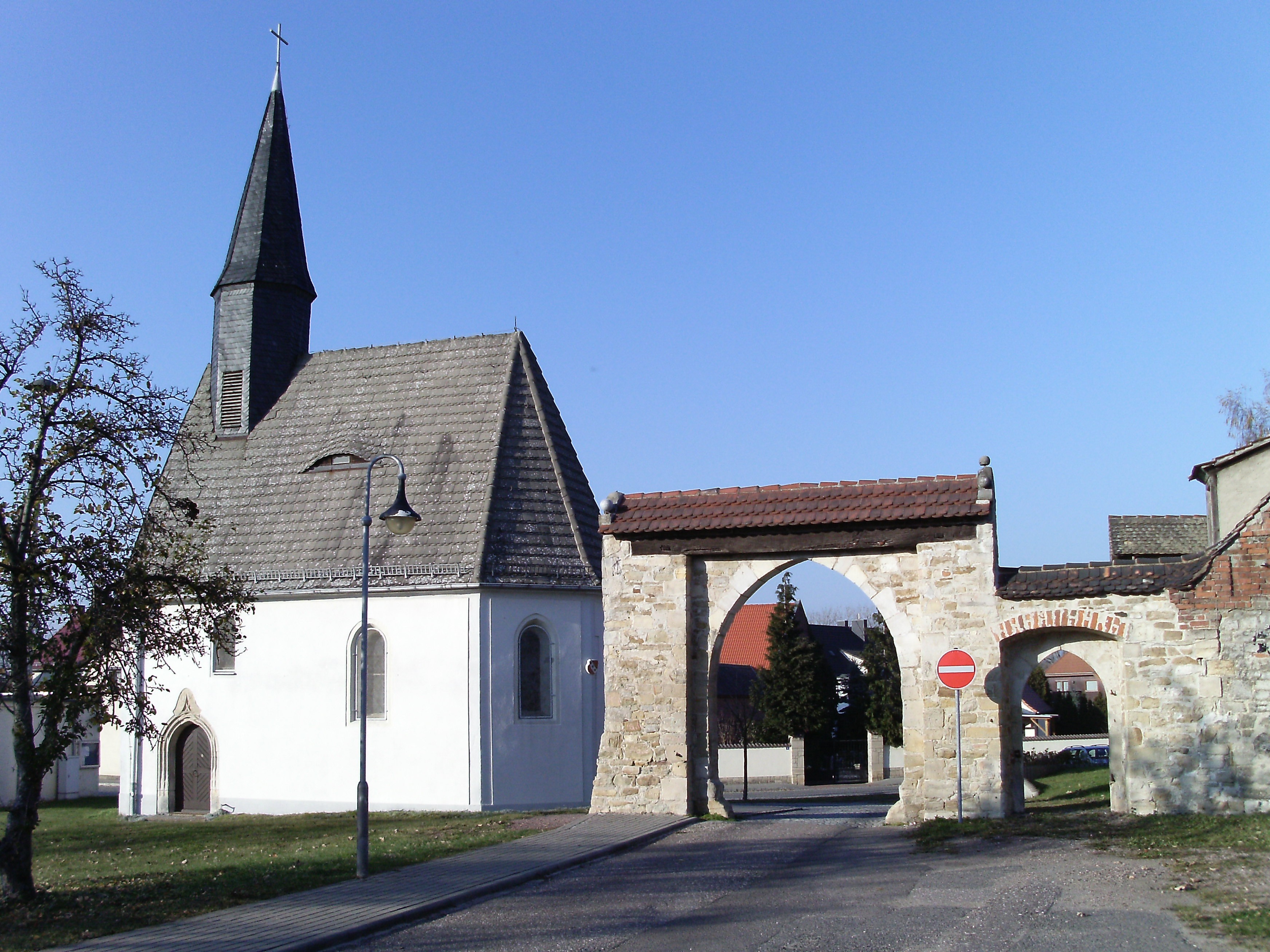 St. Anne Chapel and gate of the former aristocratic estate in Kötschlitz (Leuna, district of Saalekreis, Saxony-Anhalt)